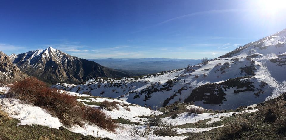 This image taken from tikejda it’s a beautiful place to visit